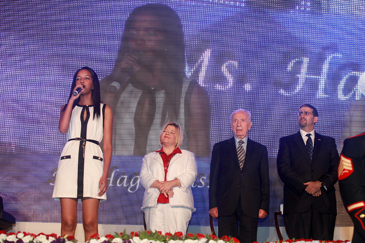 To celebrate this year’s Independence Day the U.S. Ambassador to Israel, Daniel Shapiro, and his wife Julie Fisher hosted a reception at their residence. Over 2,000 guests enjoyed American food from McDonalds, Dominos, Ben and Jerry’s and more. The guests were entertained by the Israeli Conservatory of Music Jazz Ensemble and the U.S. Military Quartet “Winds Aloft.” Hagit Yassu (winner of Israel’s singing competition “Kokhav haNolad”) and Dr. Eric Huntsman (a visiting American professor from Brigham Young University) sang the national anthems. Supreme Court Justice Elena Kagan, U.S. Ambassador Daniel Shapiro, and Israeli President Shimon Peres addressed the crowd. Prime Minister Netanyahu offered a video greeting (an injury prevented him from being present).